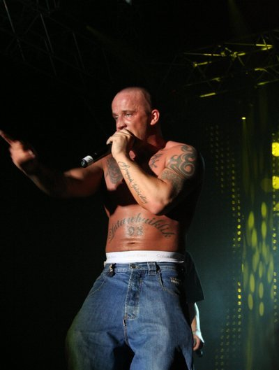 Polski raper Ryszard Peja Andrzejewski podczas koncertu z okazji piętnastolecia działalności artystycznej 17 maja 2008 roku w Poznaniu